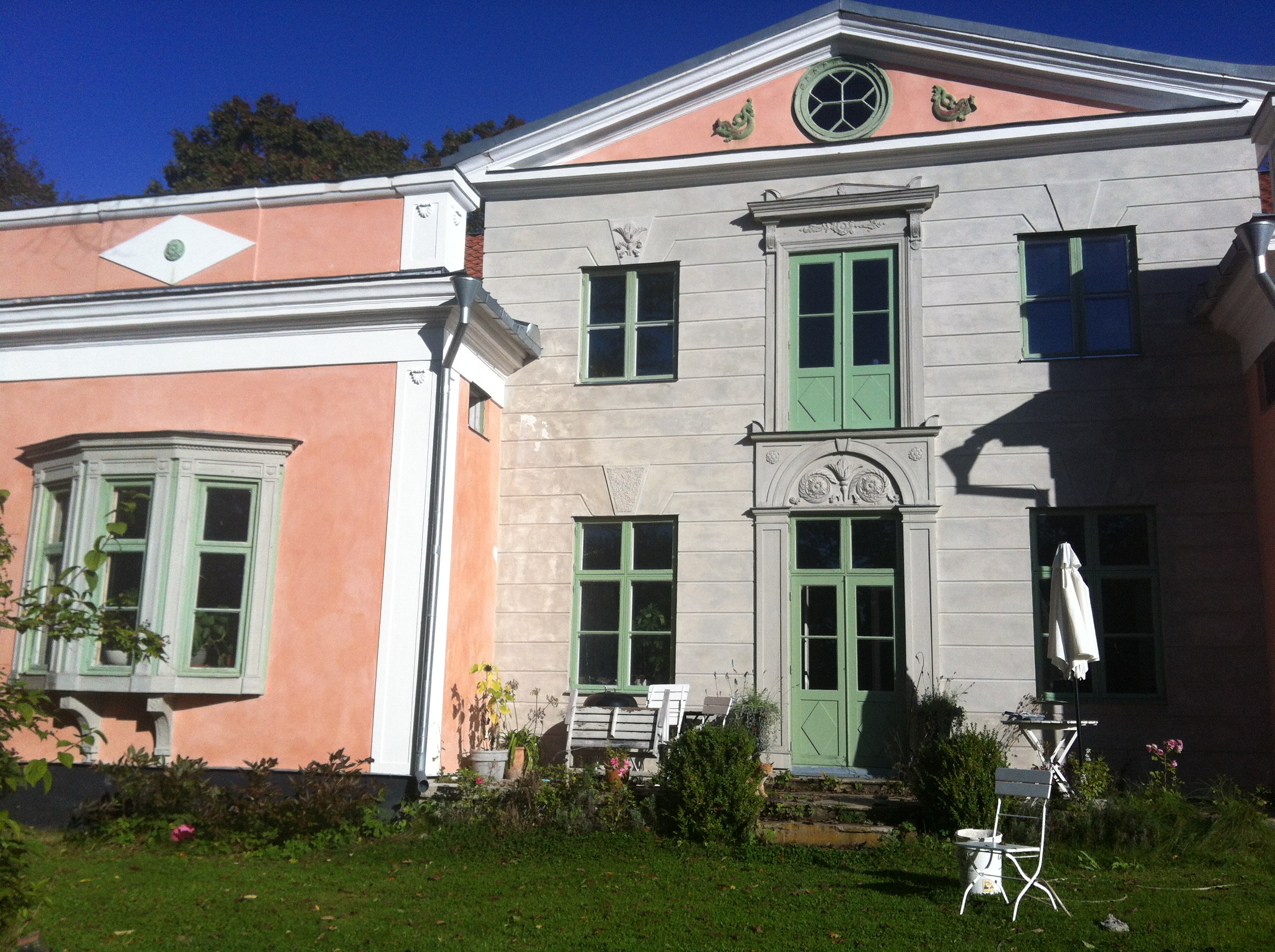 Backside of Hulta säteri